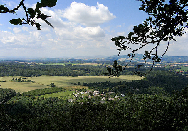 Village of Hvězda as seen from lookout point on Mt. Vlhošť, Česká Lipa District, Czech Republic